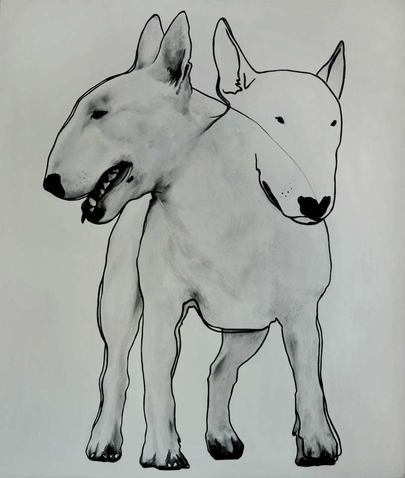 Nesheva Ulyana, 2013, Dogs, oil on canvas, 130 x 150 cm